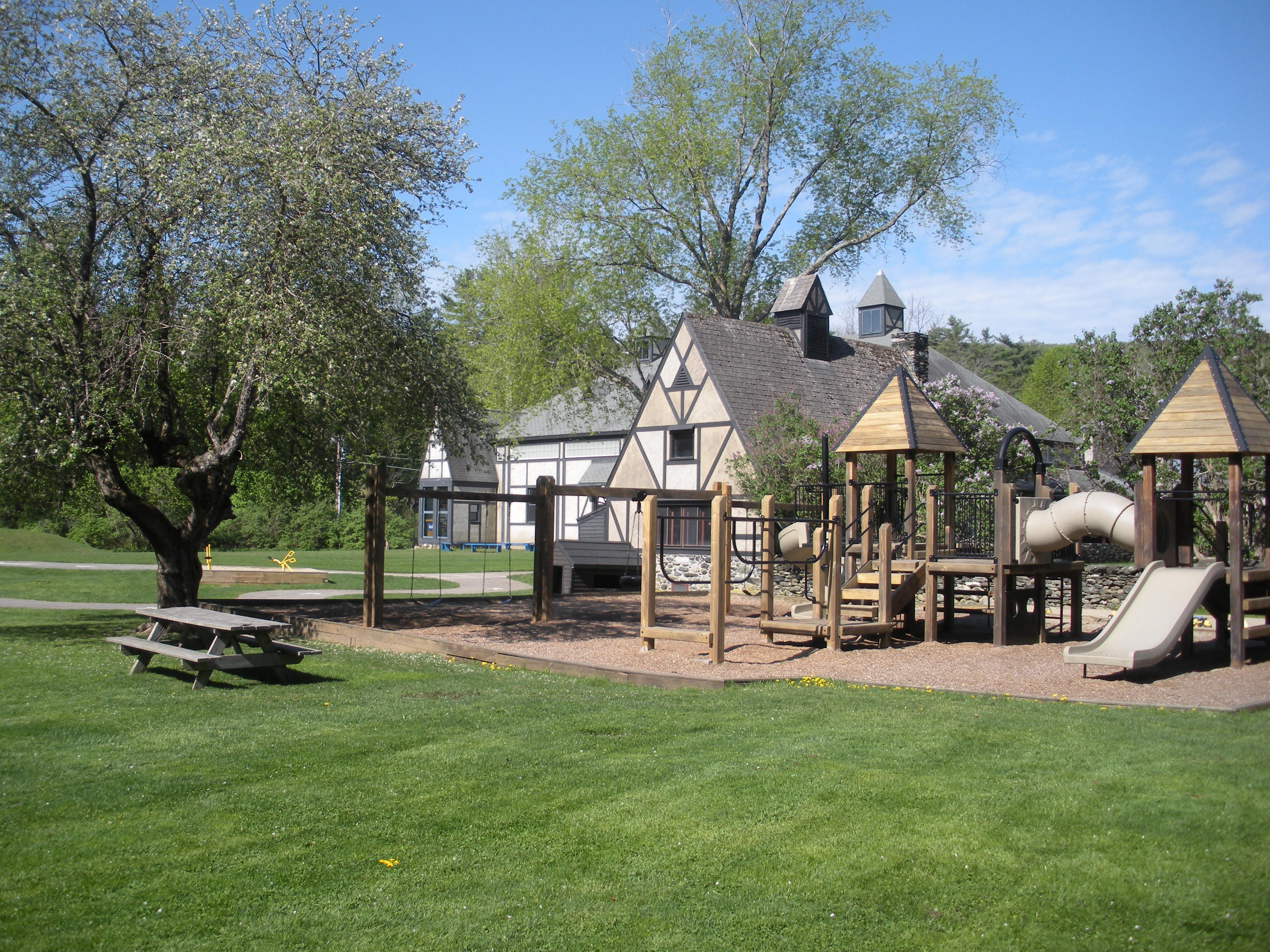 DSCN4645 Camera: Nikon Coolpix S550